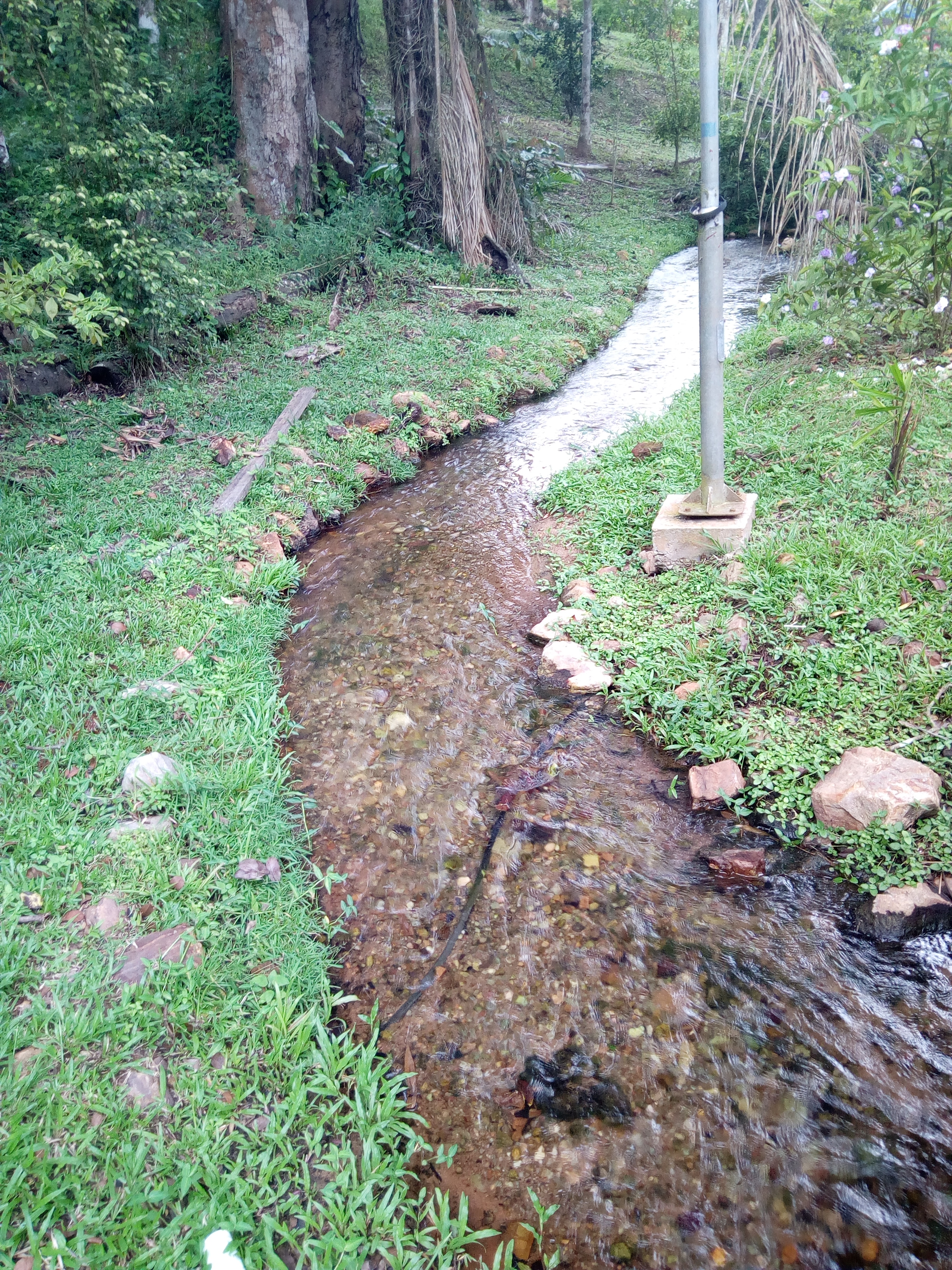 The cold and warm water meet and mix at a point, then meanders along this path.